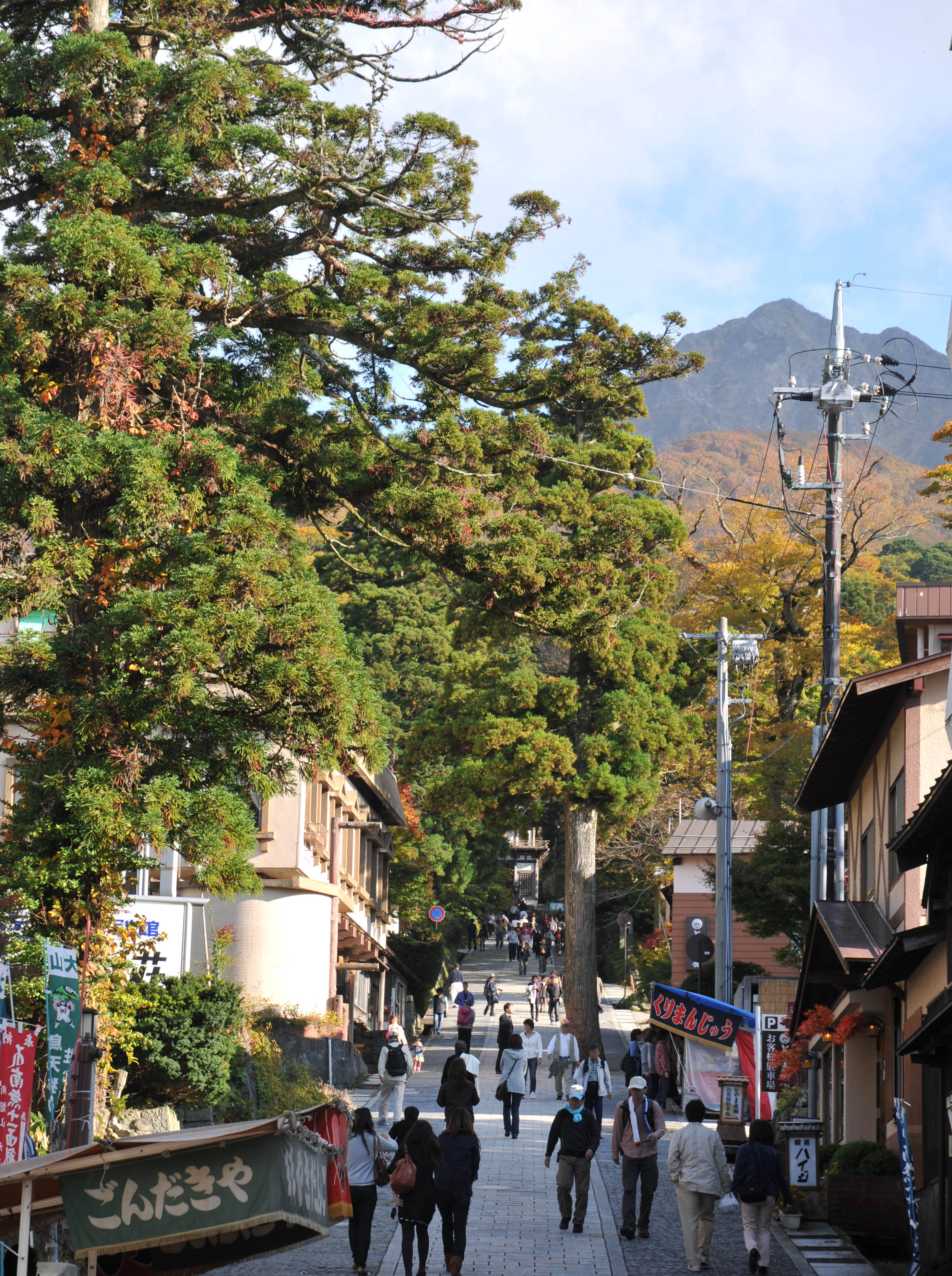 approach to the temple